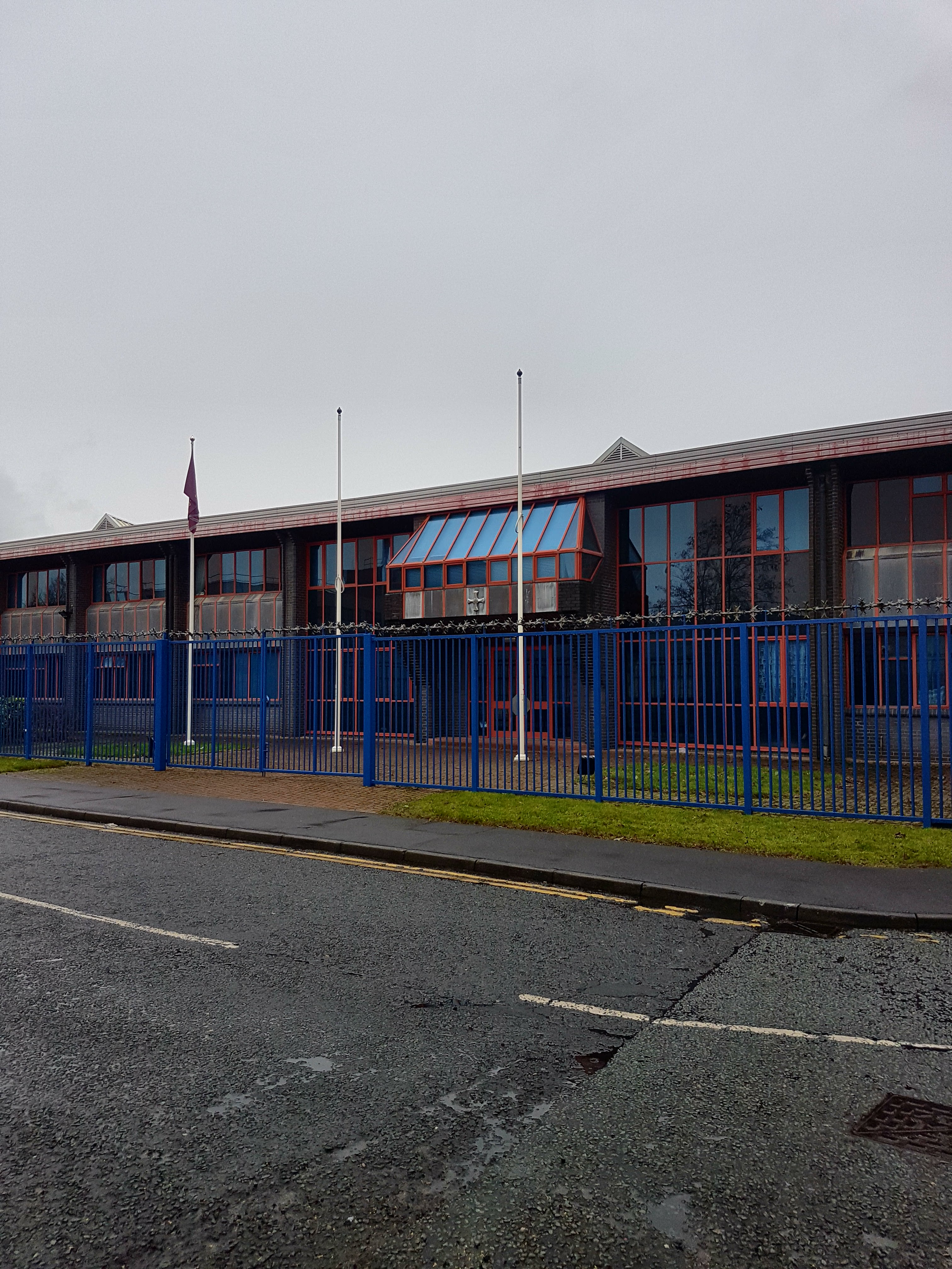 St Cuthbert's Keep, Newcastle upon Tyne